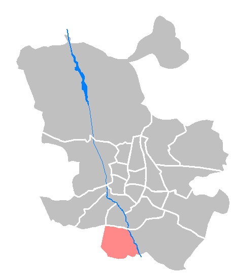 Locator maps of districts in Madrid: Maps - ES - Madrid - Villaverde.PNG